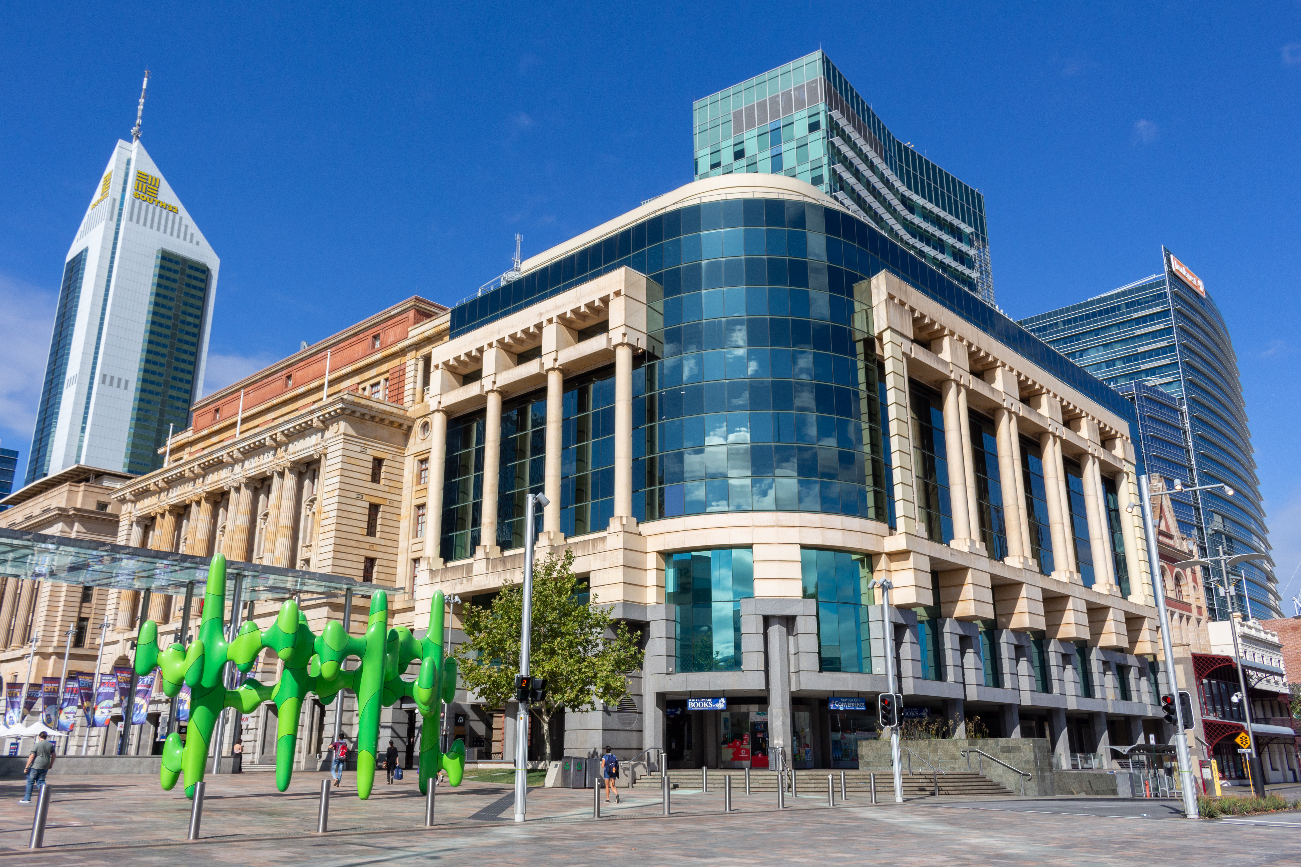 Albert Facey House in Perth, located on the corner of Wellington Street and Forrest Place.